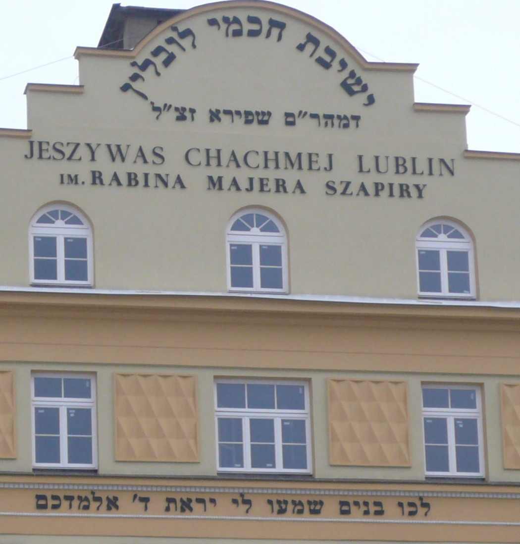 Jeszywas Chachmej Lublin